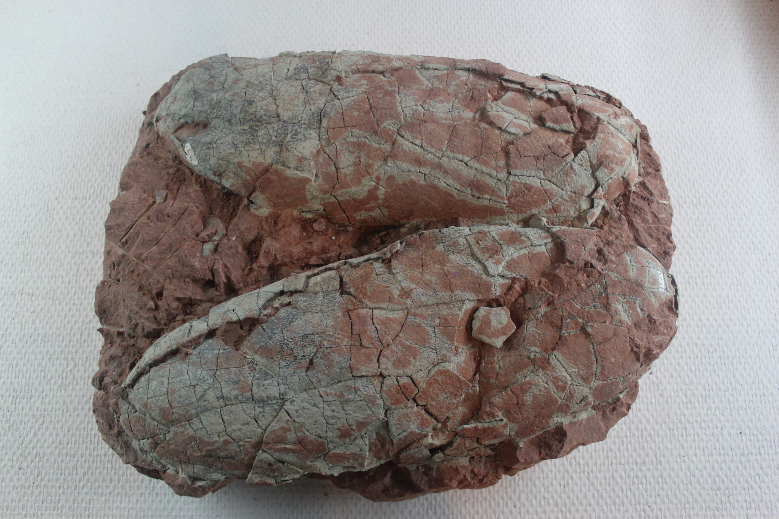 Macroelongatoolithus carlylei on display at the Geological Museum of China.